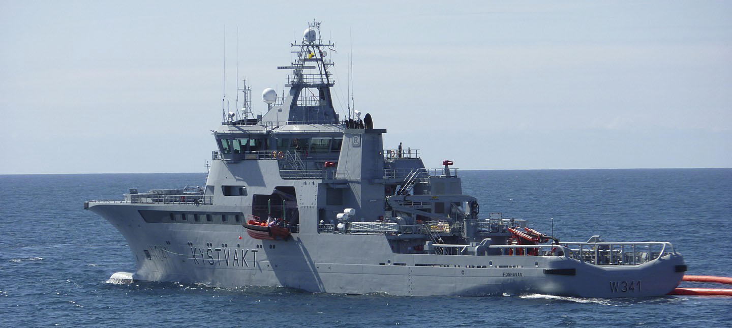 Norwegian Coast Guard ship KV Bergen